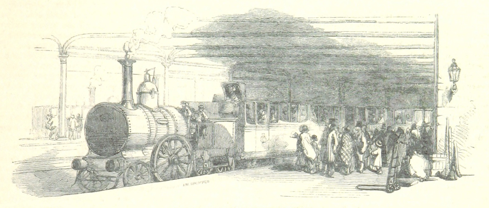 An 1840s steam train collects passengers at Bishopsgate railway station, beginning their journey.